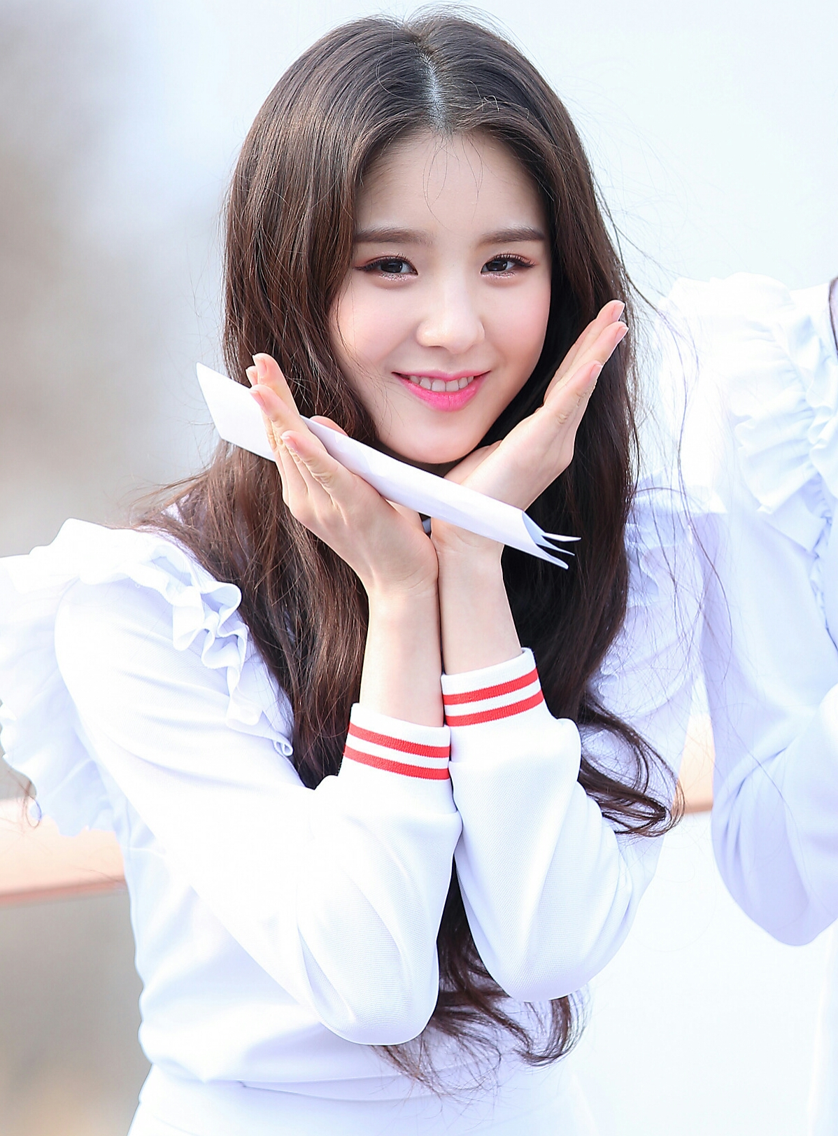 Heejin at Inkigayo Mini Fan Meeting on March 12, 2017.